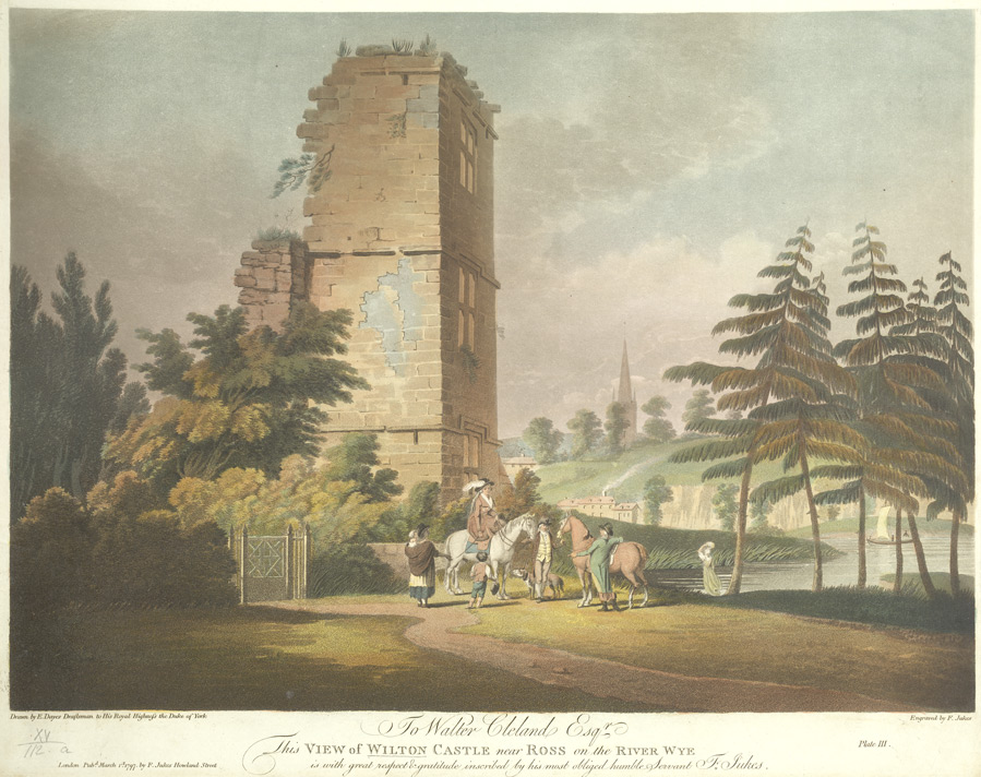 View of Wilton Castle at Bridshaw in Ross on Wye, Herefordshire, coloured aquatint, by E. Dayes. Dated 1797. Courtesy of the British Library, London.